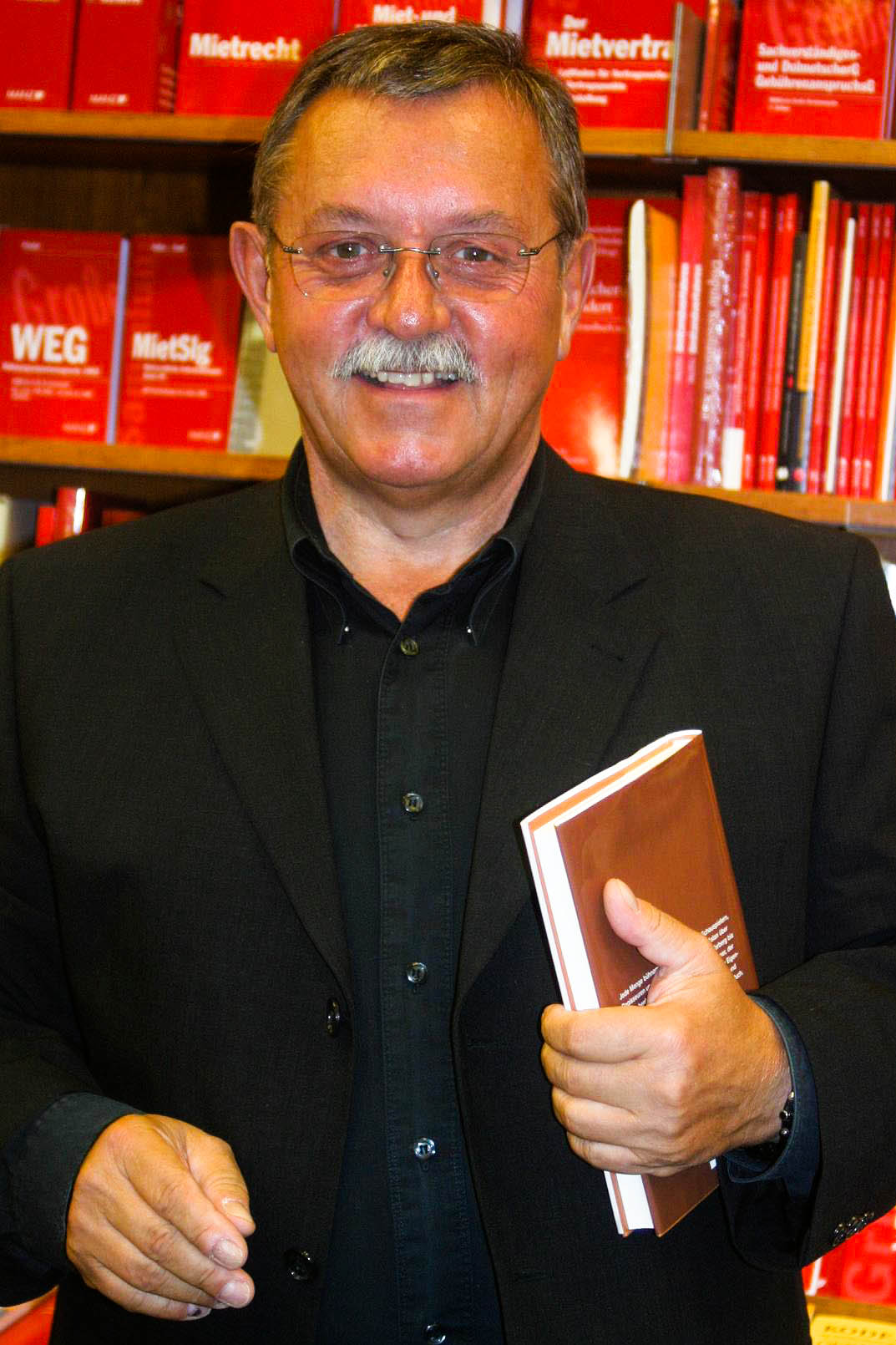 Prof. Dr. Hager presenting one of his books at a viennese Manz store.